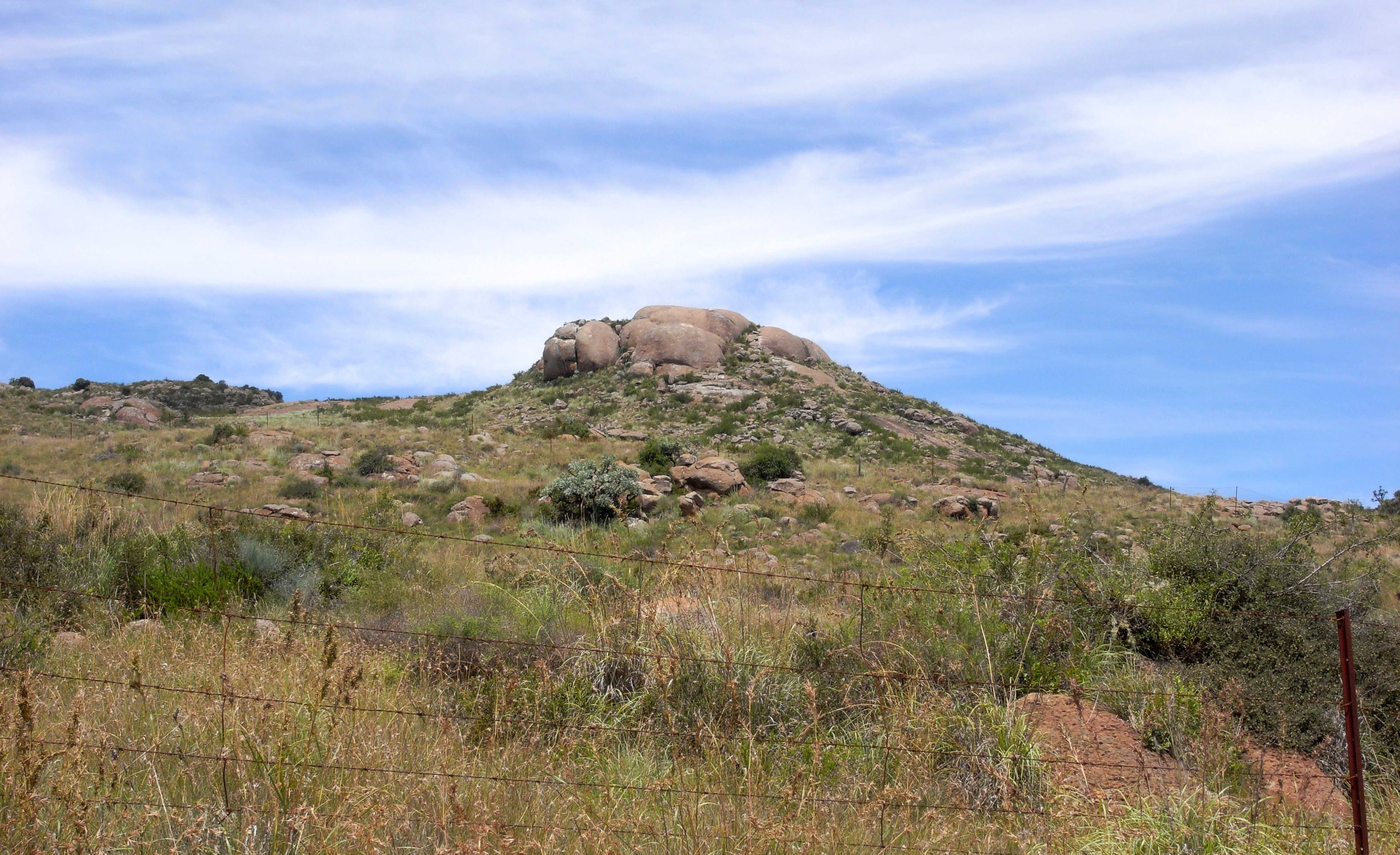 Amathole Mountains, dolerite eruption between Hogsback and Cathcart (Eastern Cape, South Africa)